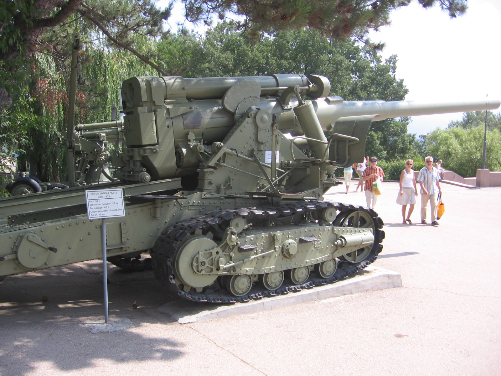 Soviet 152 mm gun M1935 (Br-2), manufactured in 1937, is displayed at the Museum of Heroic Defense and Liberation of Sevastopol on Sapun Mountain in Sevastopol.